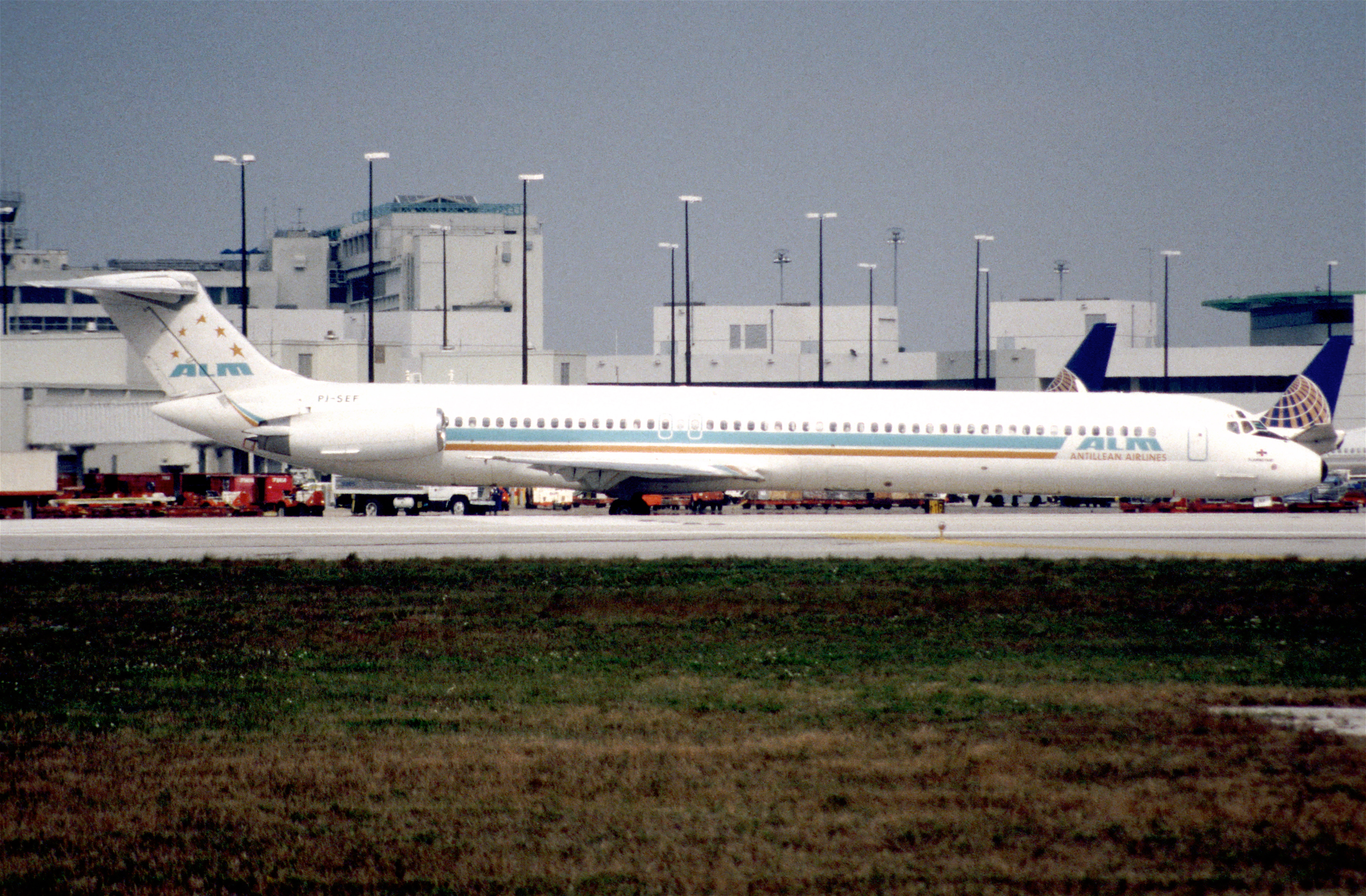 12cv - ALM Antillean Airlines MD-82; PJ-SEF@MIA;31.01.1998